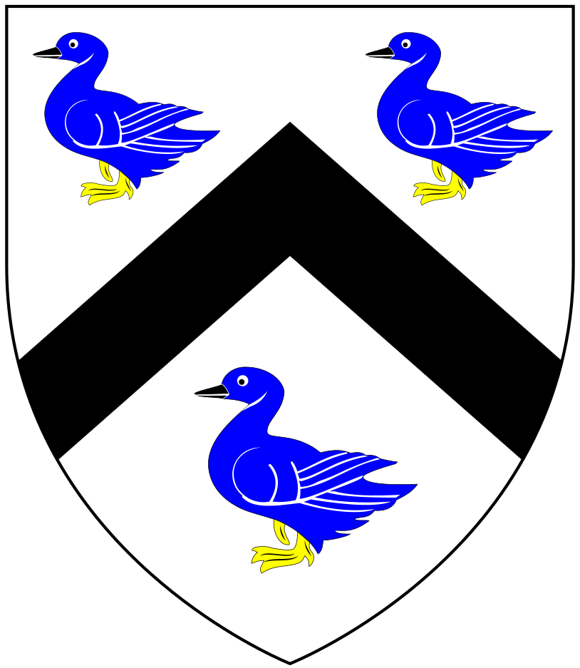 Arms of Yeo of Huish, Devon: Argent, a chevron sable between three ducks azure. Per research conducted by Sheila Yeo of the Yeo Society [1], based on stained glass depictions of Yeo arms in churches of Petrockstowe (Yeo of Heanton Satchville) and Hatherleigh (Yeo of Hatherleigh) both in Devon. The ducks are described as of various breeds by different sources. Heraldic sources give contradictory tinctures: Argent, a chevron between three shovelers sable (Vivian, Lt.Col. J.L., (Ed.) The Visitation of the County of Devon: Comprising the Heralds' Visitations of 1531, 1564 & 1620, Exeter, 1895, p.834) and Argent, a chevron between three mallards azure (Pole, Sir William (d.1635), Collections Towards a Description of the County of Devon, Sir John-William de la Pole (ed.), London, 1791, p.510)